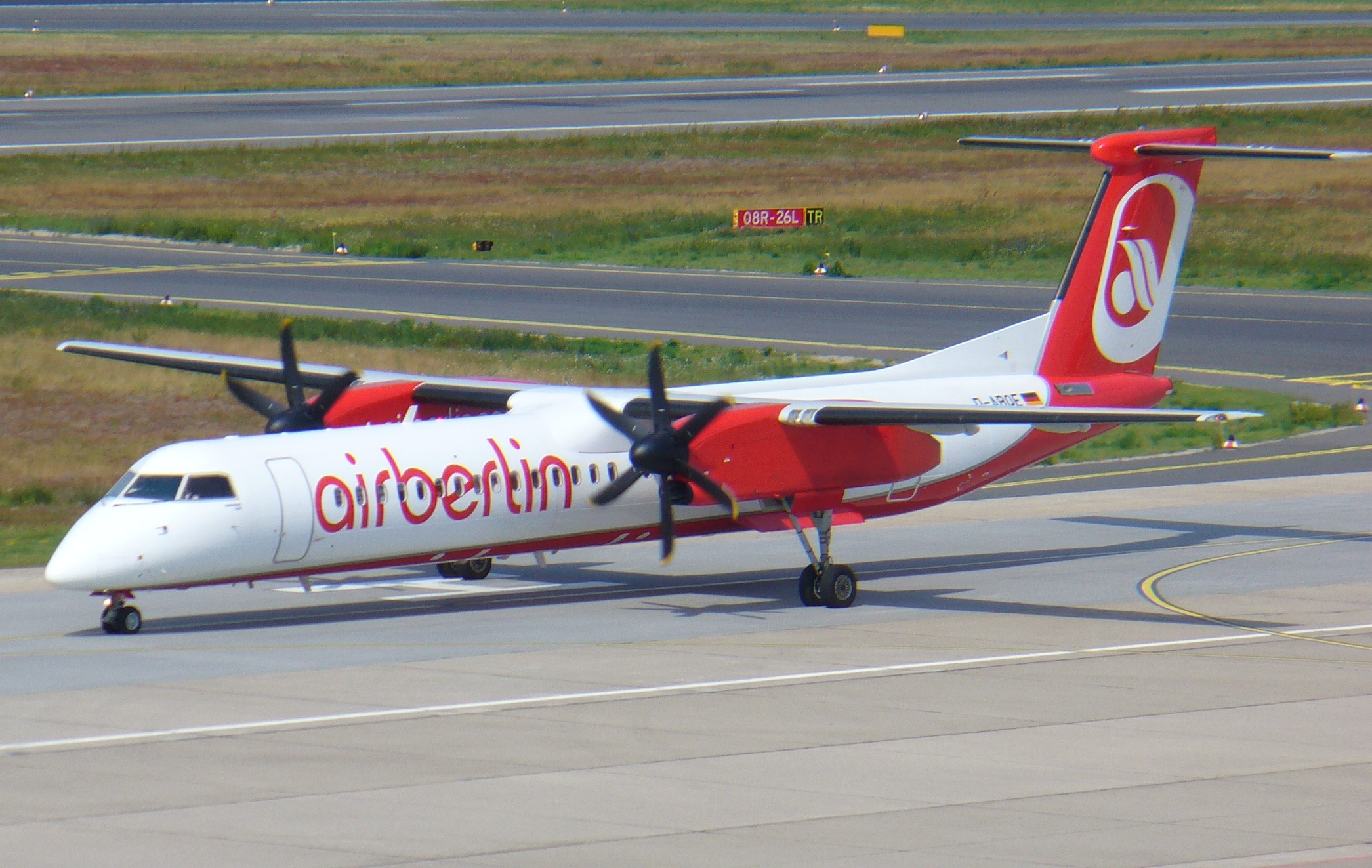 Air Berlin Dash 8 Q400 aircraft at Berlin-Tegel airport